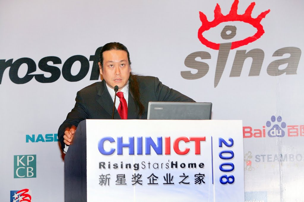 CHINICT's Master of Ceremonies Kaiser Kuo in 2008.